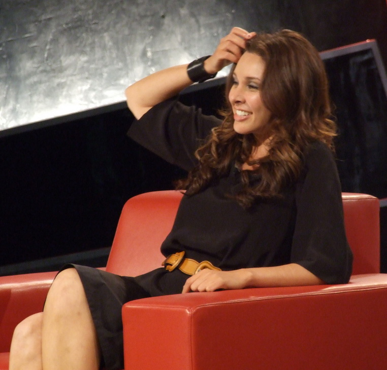 Actress Lisa Ray being interviewed on The Hour. Caption at the source site: Lisa Ray has made some interesting and successful acting decisions. Her big break came in 2002 when she snagged the role of an escort hired as a bride-to-be for a playboy millionaire in Deepa Mehta's 'Bollywood/Hollywood.' After 'Bollywood/Hollywood,' she went on to Jafri's 'Arrangement,' a U.S.-British co-venture about arranged Indian marriages; and Kiran Merchant's 'Quarter Life Crisis,' a portrait of twenty-somethings adrift in New York's singles scene. She recently starred in 'The World Unseen'. It's an adaptation of Shamim Sarif's critically-acclaimed debut novel. Check out her interview with George here.